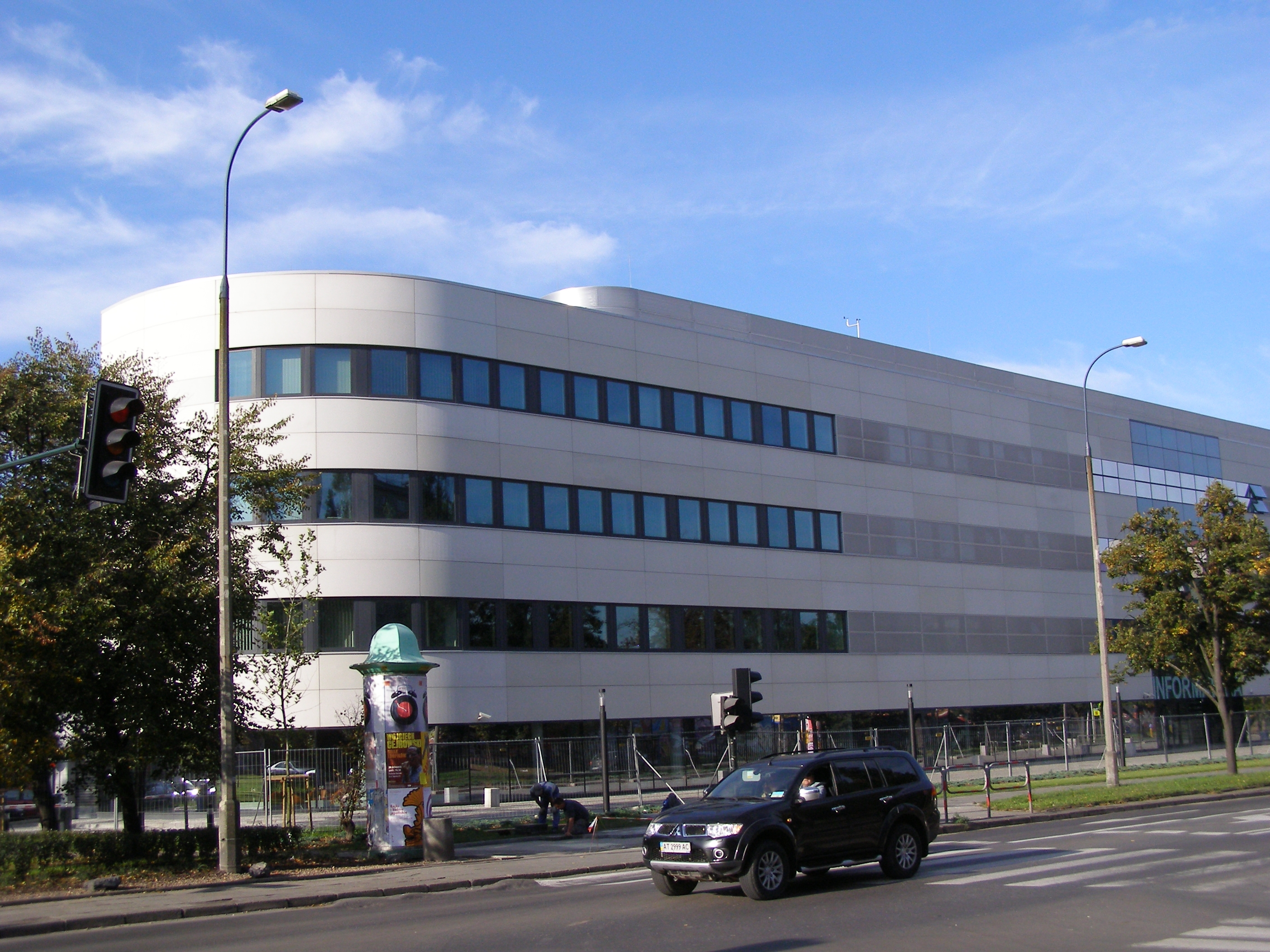 Kraków - AGH University of Science and Technology - construction of the Information Technology Centre of the Faculty of Computer Science, Electronic and Telecommunications (D-17 building)